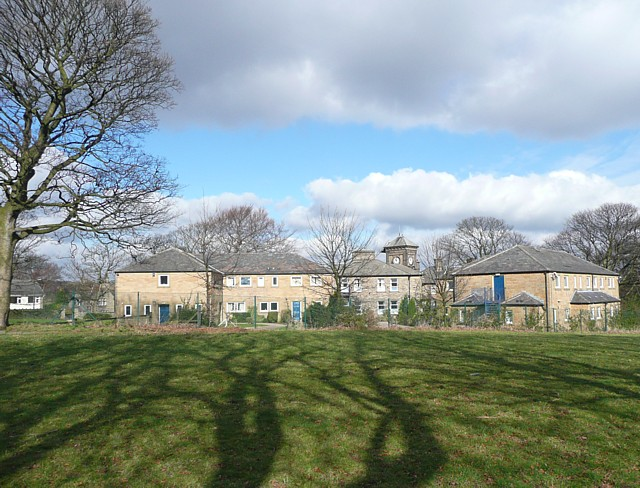 New buildings at the William Henry Smith School, Boothroyd, Rastrick The clock tower is part of the mid-19C building.